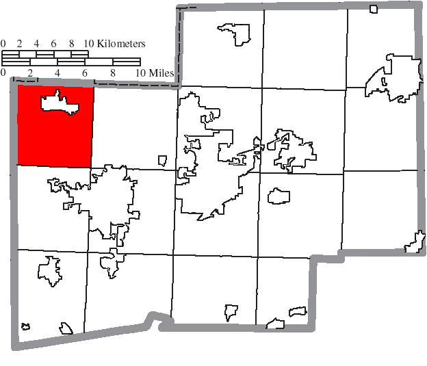 Map of the municipal and township boundaries of Stark County, Ohio, United States, as of the 2000 census, with the location of Lawrence Township highlighted. Township borders are shown only in unincorporated areas in order to differentiate incorporated and unincorporated areas more clearly.